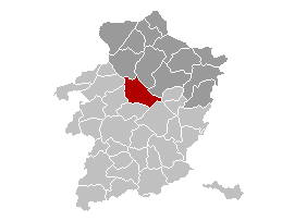 Map, municipality belgium Houthalen-Helchteren.